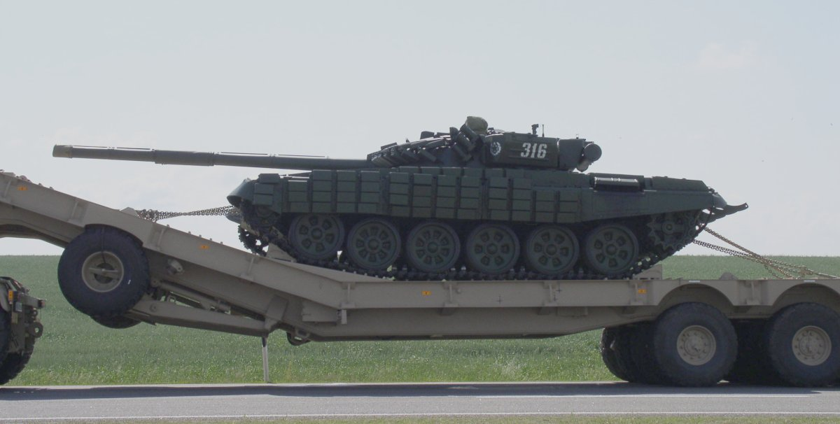 Transporting T-72. Belarus